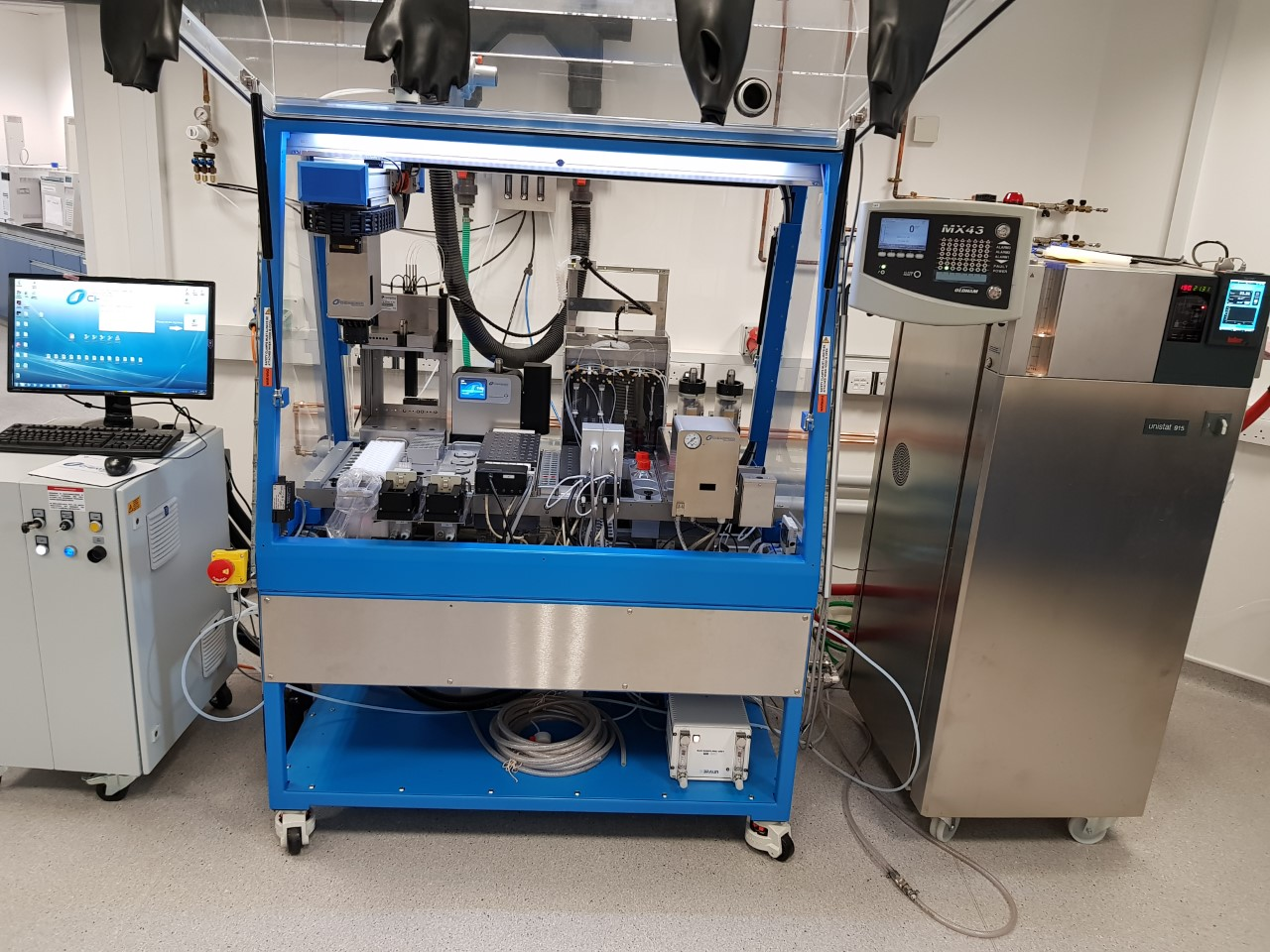 University of Bristol, Chemspeed SWING platform: (from left to right) Programming station; SWING platform; Huber thermostat.